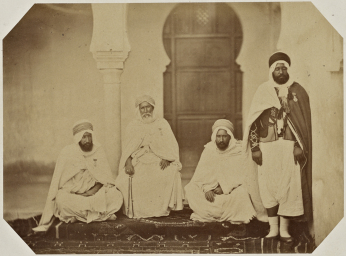 Commander and Amir of Mascara in a Madjliss circa 1856, taken by Félix Jacques-Antoine Moulin.